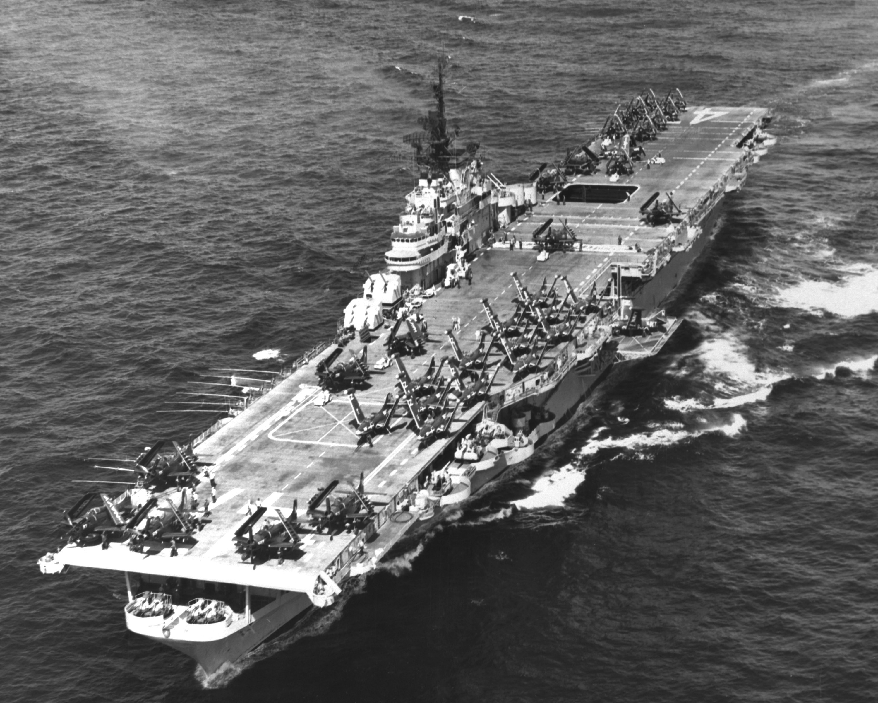 The U.S. aircraft carrier USS Philippine Sea (CVA-47) at sea off Korea on 3 May 1953. Philippine Sea, with assigned Carrier Air Group 9 (CVG-9) was deployed to the Western Pacific and the Korean War from 15 December 1952 to 14 August 1953. Many planes of CVG-9 are vieible on deck: 14 Grumman F9F-2 Panther of Fighter Squadrons 91 (VF-91) and VF-93, six Douglas AD-4/-4NA/-4NL Skyraiders Attack Squadron 95 (VA-95), eleven Vought F4U-4 of VF-94, three AD-4W of Composite Squadron 11 (VC-11) Det. M (one on the starboard bow, two in front and to the right of the lowered deck elevator), and a AD-4N of VC-35 Det. M (aft of the elevator). Note the work going on on the crash barrier.